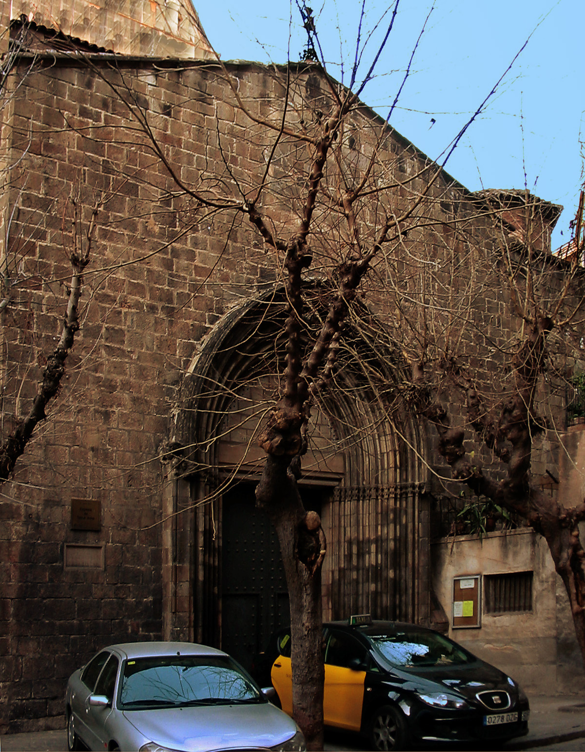 Church of Santa Anna, Barcelona